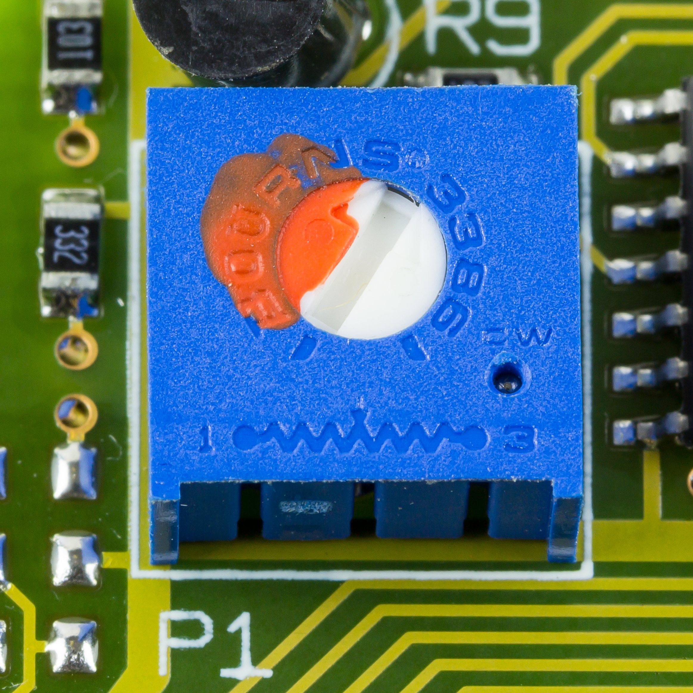 Nedap ESD1 - Keyboard controller PCB - Bourns 3386 - 3/8” Square Trimpot Trimming Potentiometer